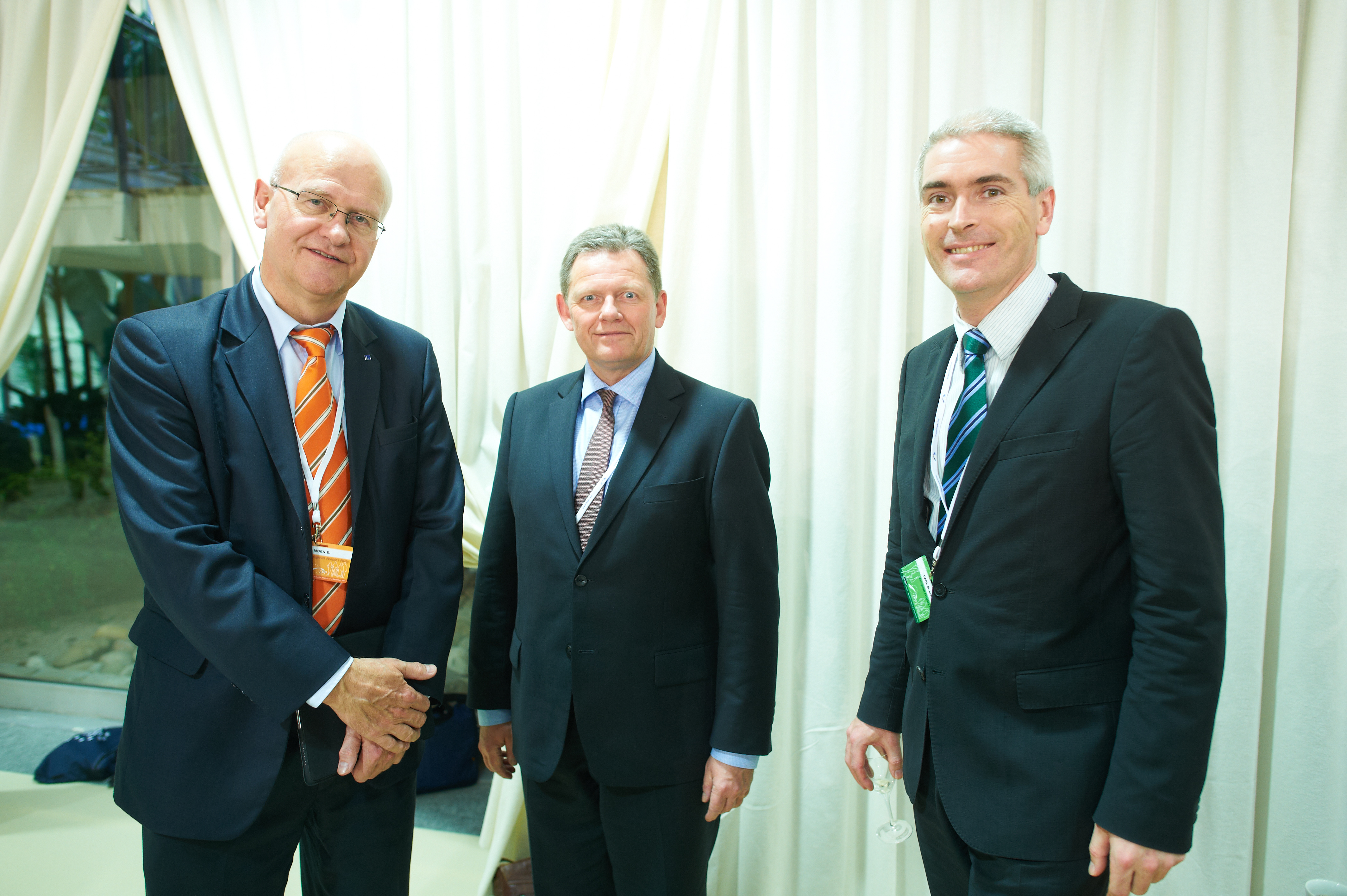 EPP Congress Marseille 2011. Lars Barfoed in the middle